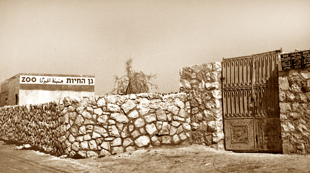 Biblical Zoo, probably in Shmuel HaNavi neighborhood in Jerusalem